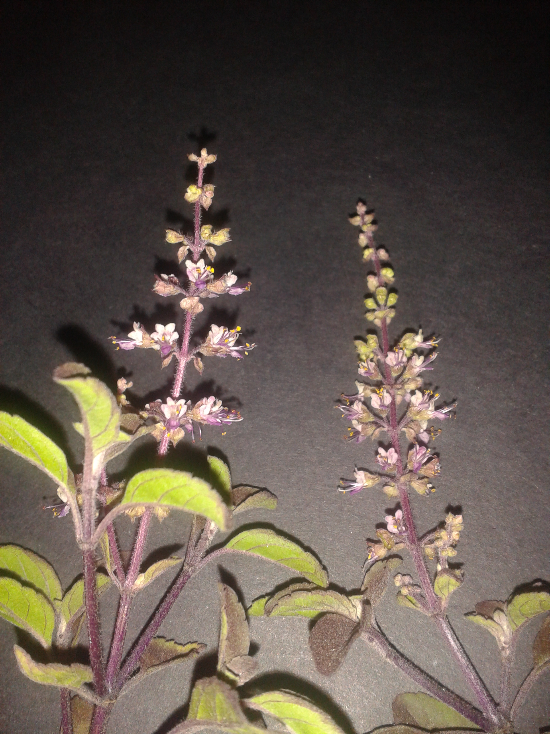 கருந்துளசி Botanical name: Ocimum Tenuiflorum Common name – Purple stalked basil Tamil name – KARUNTULASI (கருந்துளசி) ’black tulsi’ Nativity – India Increases longevity ;Promotes flow of mother's milk ;Known for antibacterial, antidepressant , Antioxidant and antiviral activities; Promotes blood circulation ; Lowers blood sugar level; Prevents gastric ulcers. S.Soundarapandian (talk) 13:56, 7 February 2015 (UTC) संस्कृतम्: - Krishna tulsi